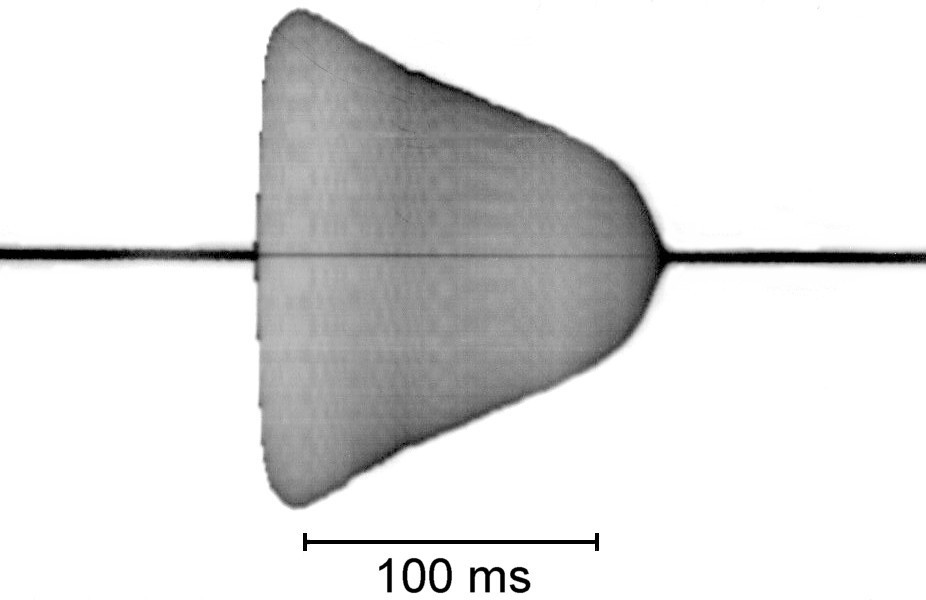 Oscillogram of a call of Alytes obstetricans at 10° C air temperature